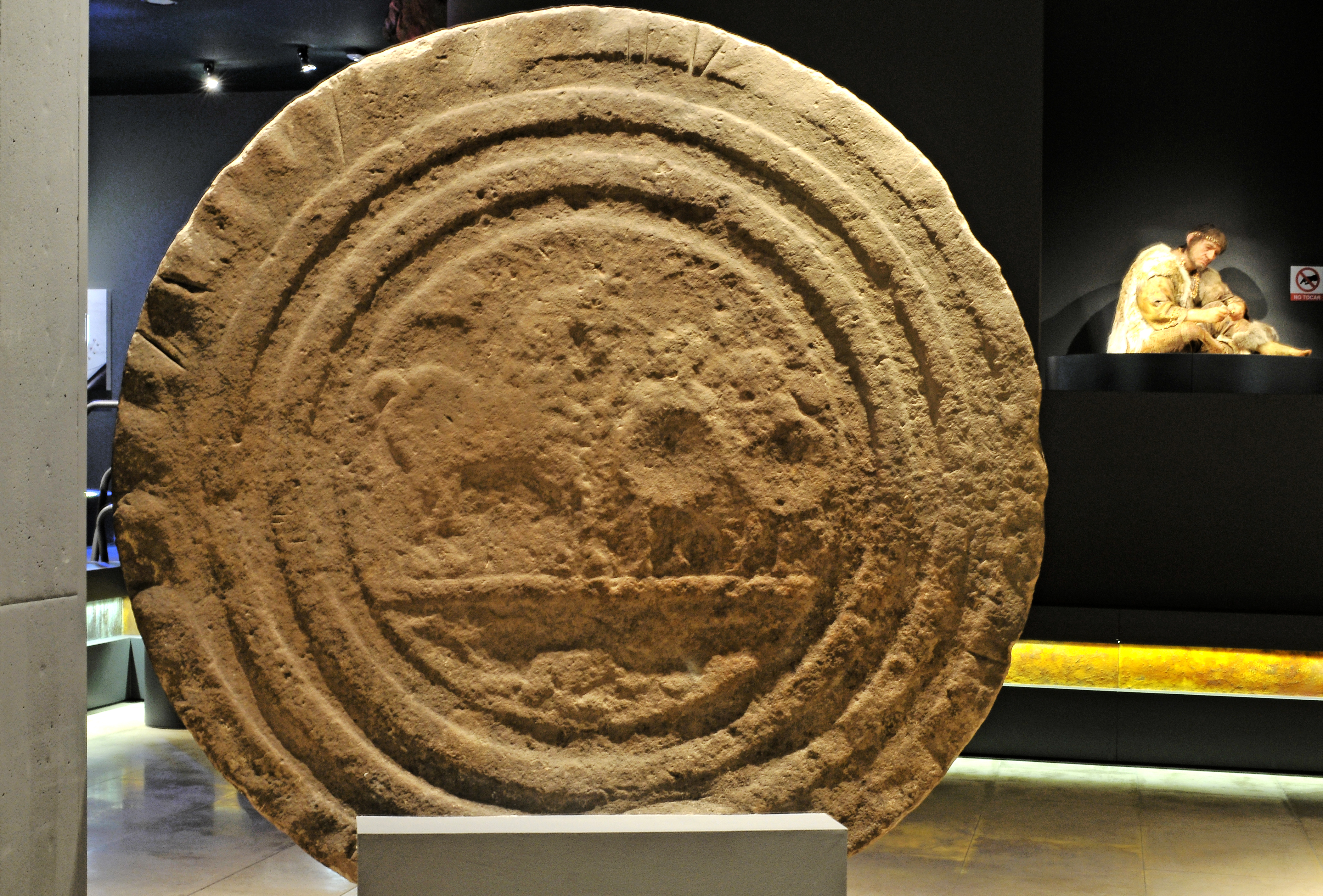 Obverse of the Cantabrian discoid stele found in Zurita de Piélagos, today in the Archaeological Museum of Santander, Cantabria, Spain